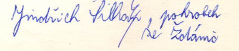 Signature from December 4, 1981 at Zlin